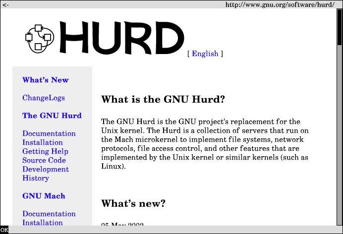 Screenshuot of the Links web browser